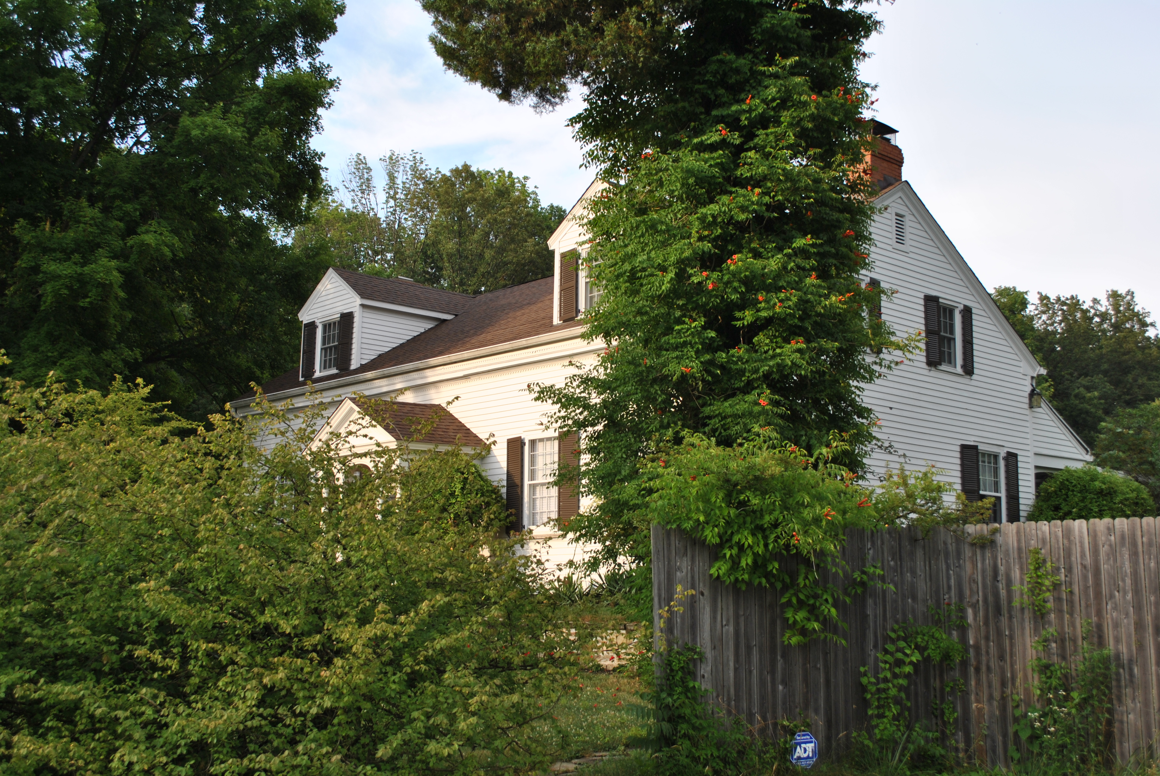 Located in Genoa Township, Delaware County Ohio and listed on the NRHP